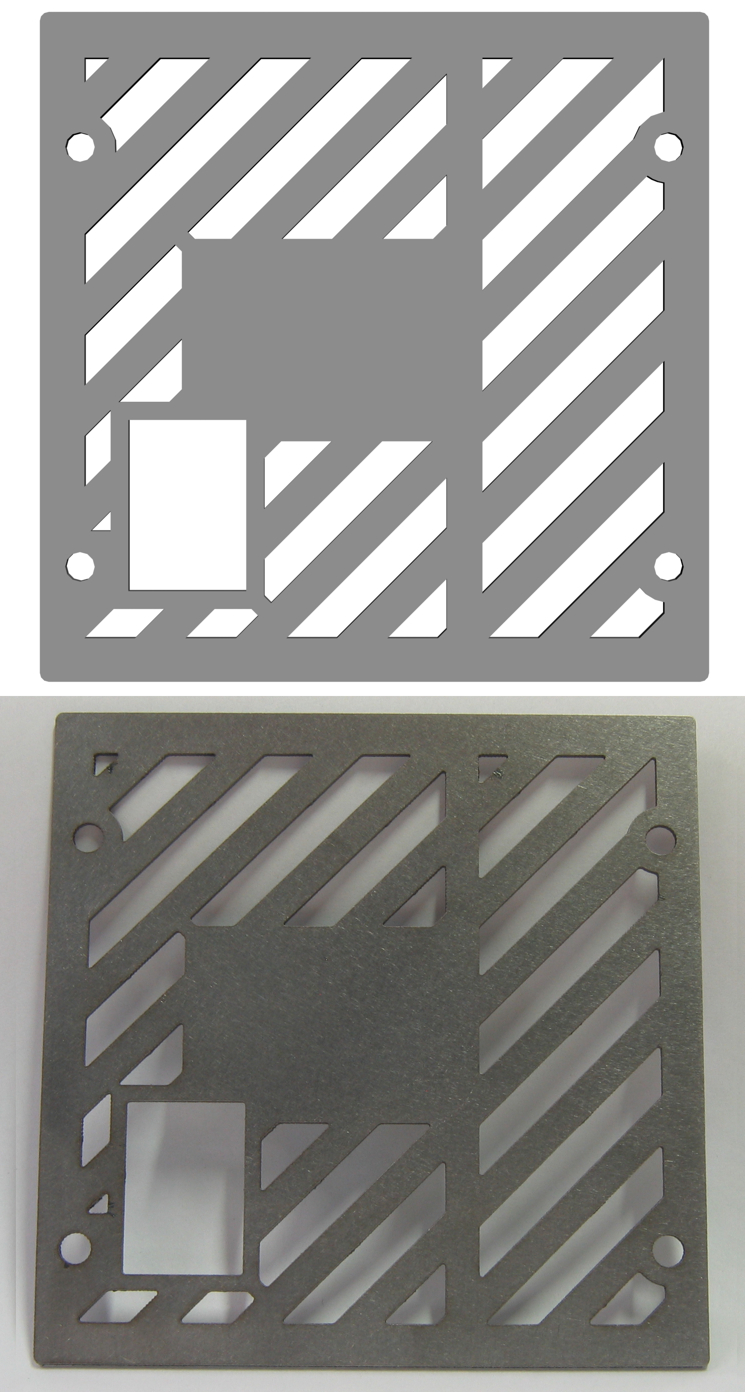 This picture shows (top) a CAD model of a metal part and (bottom) the manufactured part, produced by laser cutting from 0.5mm thick stainless steel.